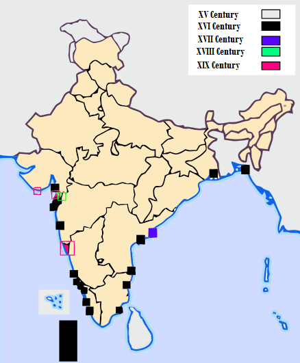 A map of Portuguese India through the centuries. Translated into English from the original